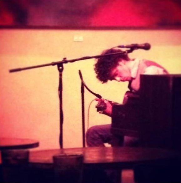 Ben Cosgrove performing live in Boulder, Colorado